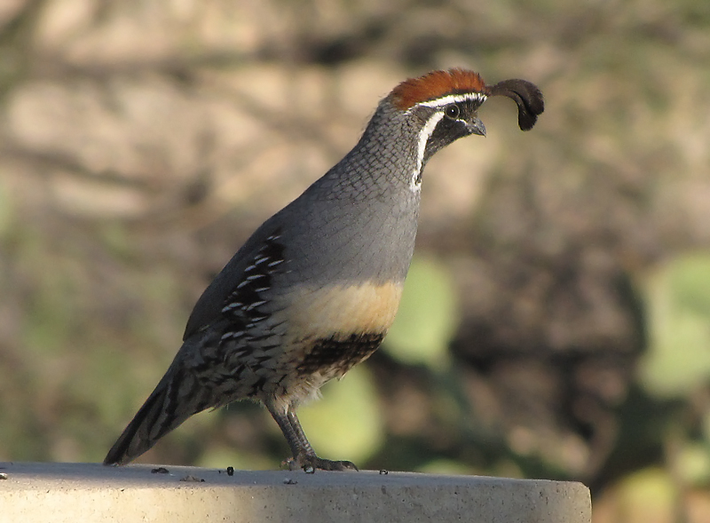 Gambel's Quail